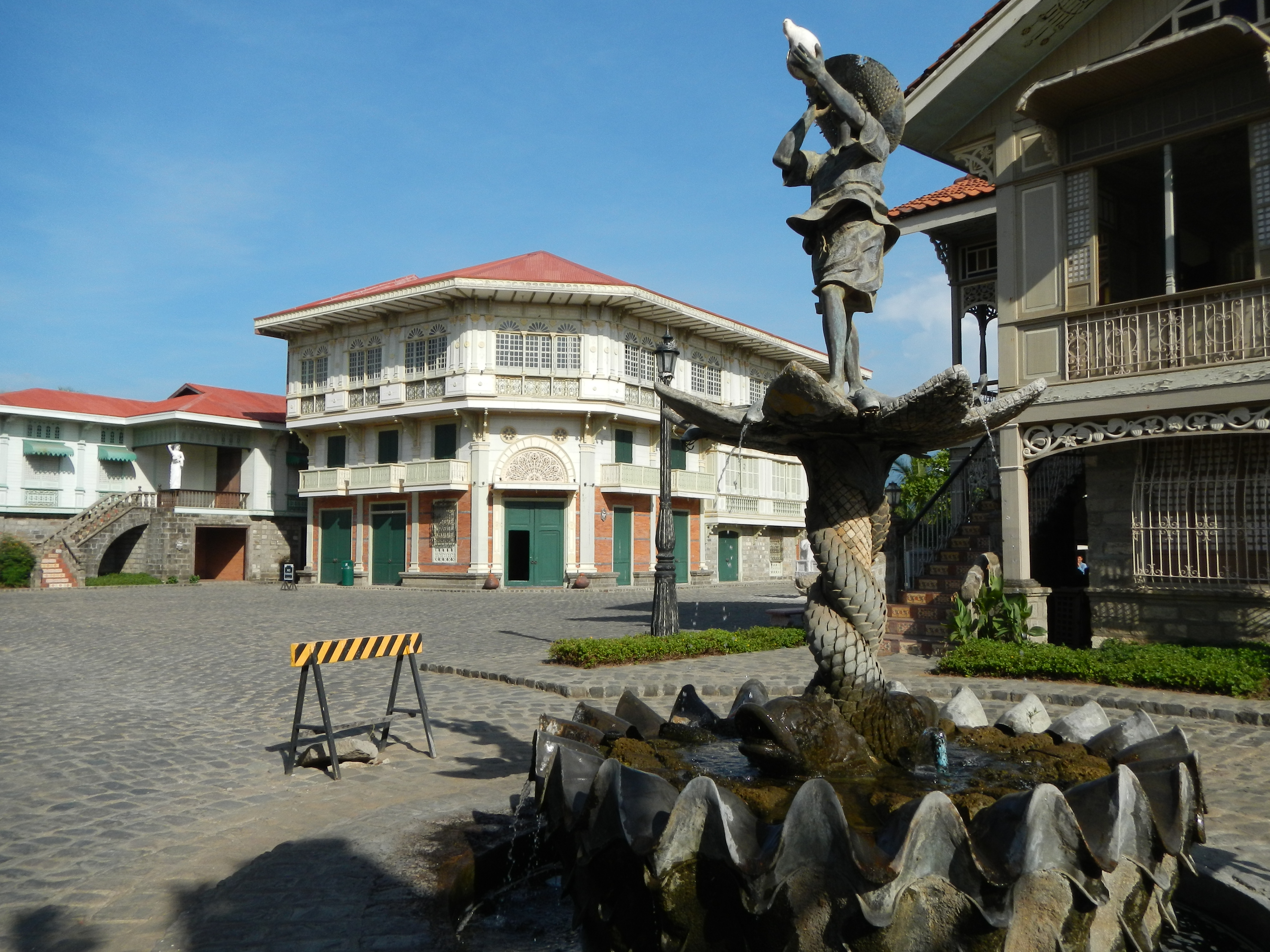 Las Casas Filipinas de Açúzar[1] [2] Website The Ciudad Real de Acuzar Heritage Park was the location of the TV Show Zorro of GMA Network.[3]. This is a heritage park built by José "Gerry" Acuzar, owner of the New San Jose Builders and history art collector. Inside this heritage park is a collection of Spanish Colonial buildings and stone houses (bahay na bato in Tagalog), planned to resemble a settlement reminiscent of the period. These houses were carefully transplanted from different parts of the Philippines and rehabilitated to their former splendor.[4] This place is situated in Bataan, Region 3, Philippines, its geographical coordinates are 14° 35' 53" North, 120° 23' 35" East and its original name (with diacritics) is Bagac.[5]Land Area: 231.20 km² ZIP Code: 2107 [6] Coordinates: 14°34'57"N 120°25'6"E [7] [N.B. From Bulacan (around 10:30 a.m.) I arrived at Bagac, at the Friendship tower (exactly 3:12 p.m.), shooting the first photo, the Friendship tower. The heat is scorching, burning ... it is around 37 deg. centigrade. Then, I entered Las Casas Filipinas de Açúzar[8] at 3:25 p.m. The entrance fee is P 650.00 ($1 = P 40 round number), and I took photos at 3:25 p.m. The tour guide showed us the 29 heritage houses, as I took photos of these, the angles. At 5:34 I finished the Casas and shot the Church and Town hall, finishing at 6:09 p.m. I arrived home at Bulacan about 10:30 p.m. and begun uploading the photos. [Note that the heritage houses were re-constructed not restored due to difficulty. The houses were transported to Bagac. One house would cost a guest, P 150,000 per night according to the tour guide.]